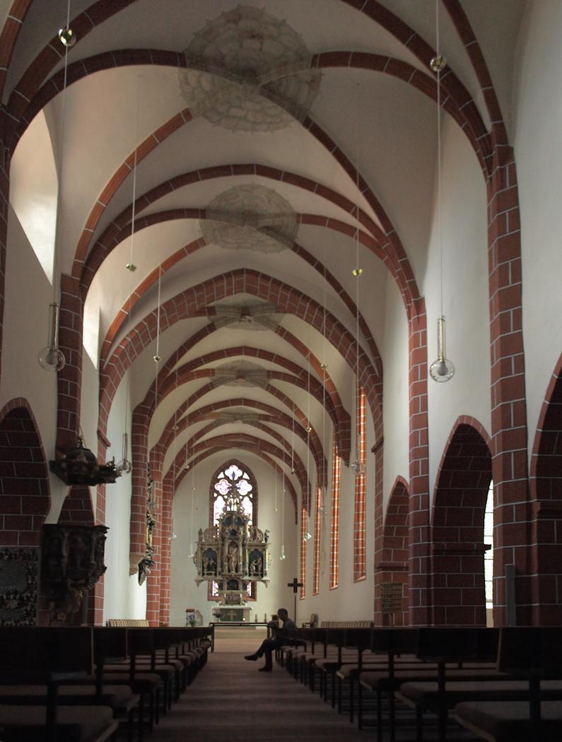 Meissen, Saxony (Germany), church St. Afra, photo 2012